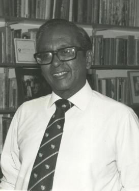 Vernon Corea, Ethnic Minorities Adviser to the BBC at his home in Wimbledon Village, South East London